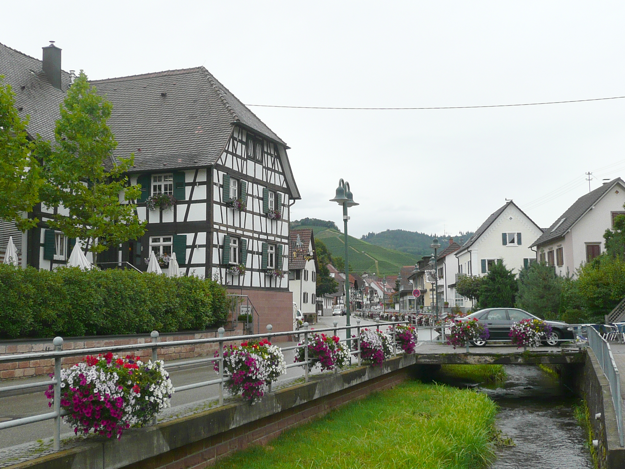 Street of Durbach, timber framing house and river, Baden.